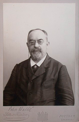 German architect and historian of architecture Peter Wallé (1845-1904)